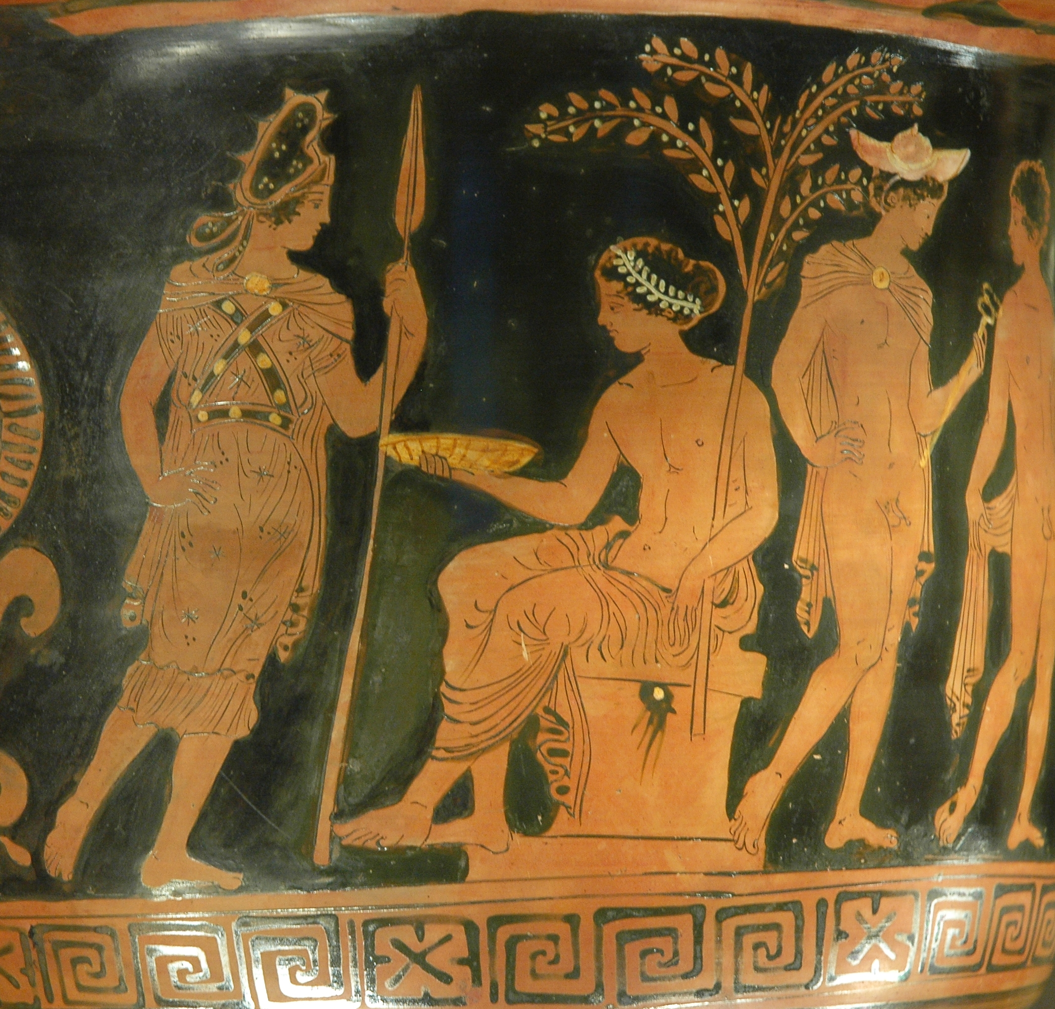 Artemis Bendis, Apollo, Hermes and a young warrior. Side A of an Apulian red-figure bell-shaped krater, ca. 380–370 BC.